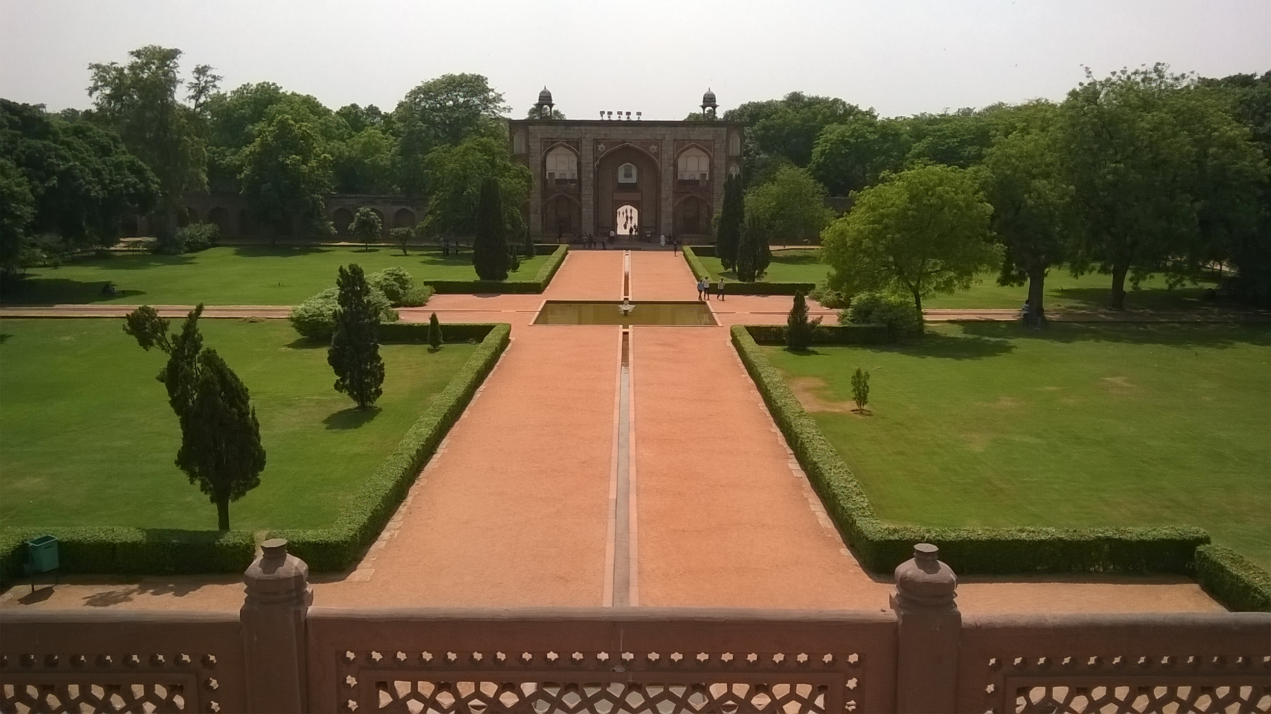 It shows the front lawn and garden area of humayun's tomb and it is clicked from the terrace of tomb which makes it more stunning.